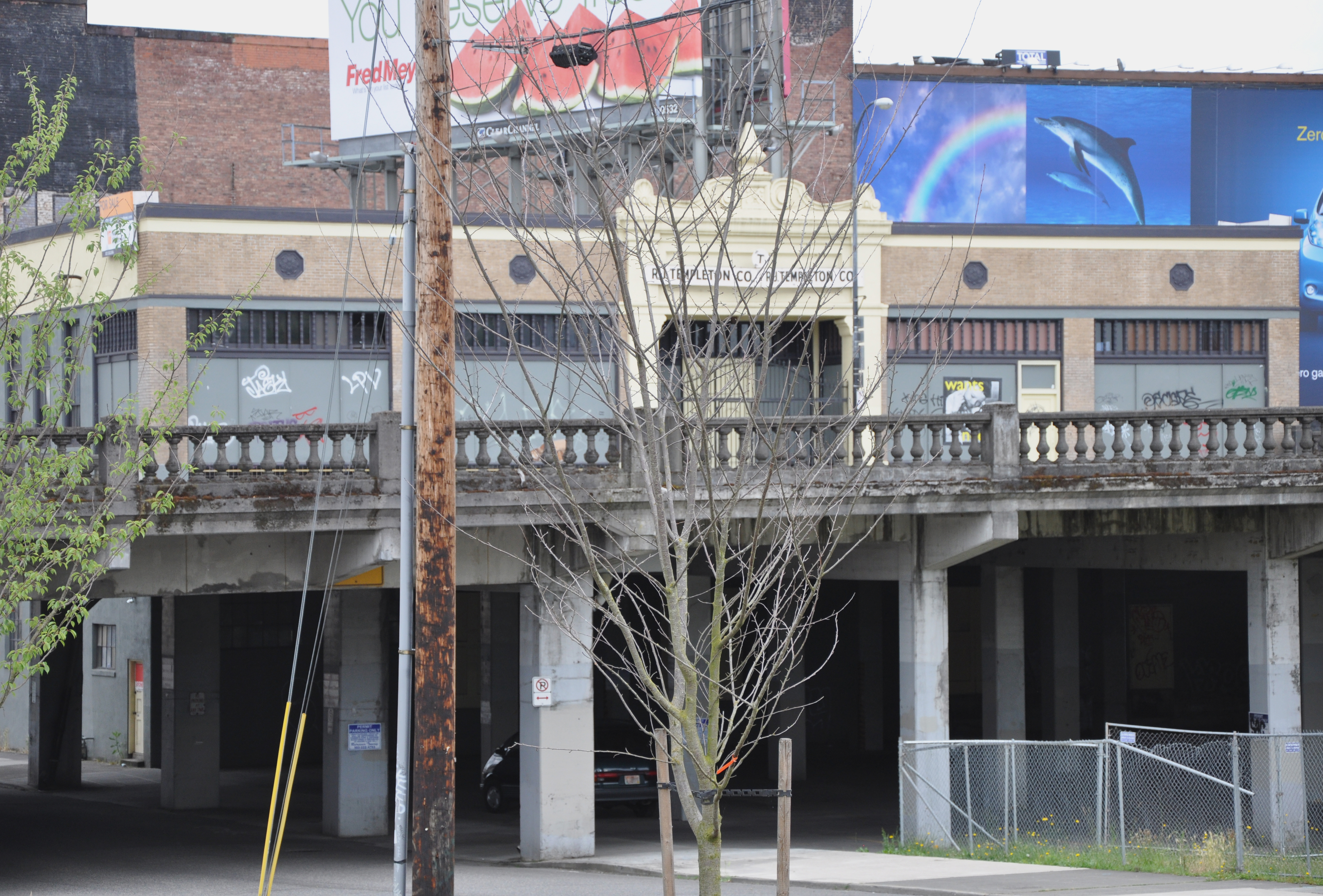 Billboards, Frigidaire Building, and bridge supports at the east end of the Burnside Bridge in Portland in the U.S. state of Oregon. The Frigidaire Building is listed on the National Register of Historic Places.